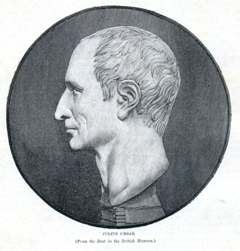 Source: Cassell's History of England - Century Edition - published circa 1902